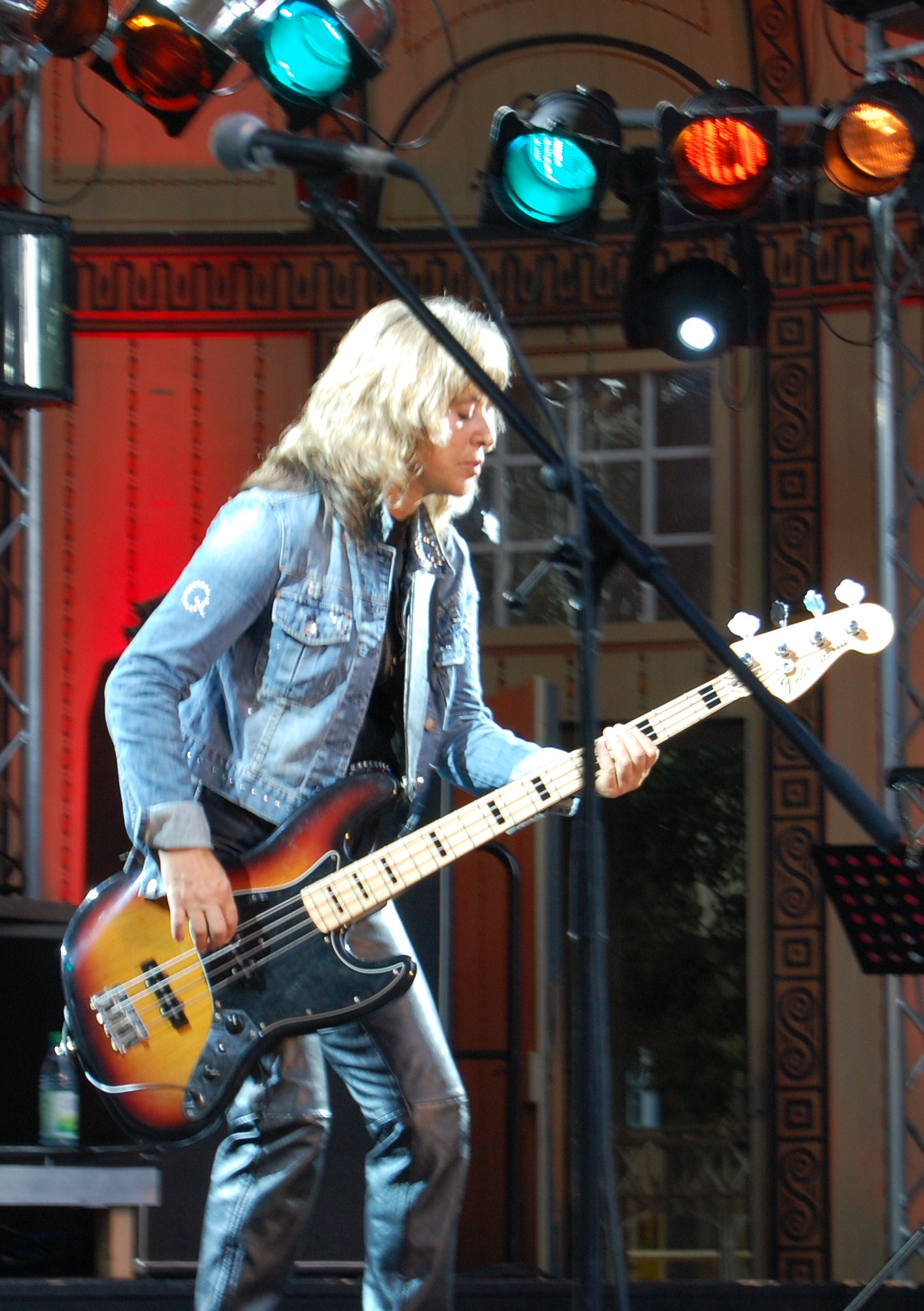 Suzi Quatro (2011) in Bad Kissingen (Germany)